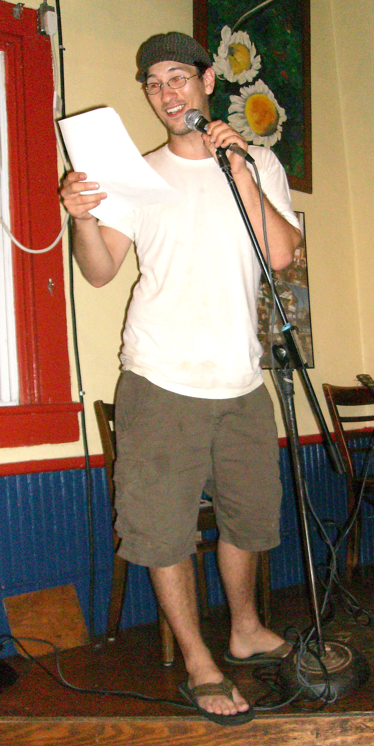 Chris Howdyshell, master of ceremonies for Little Grill Collective open mic every Thursday night at 621 N. Main Street, Harrisonburg, Virginia.